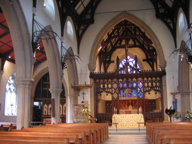 All Saints church Benhilton - interior. The church 938053 was designed by S S Teulon in the Gothic Revival style and built between 1863 and 1866. It is grade 2 listed.